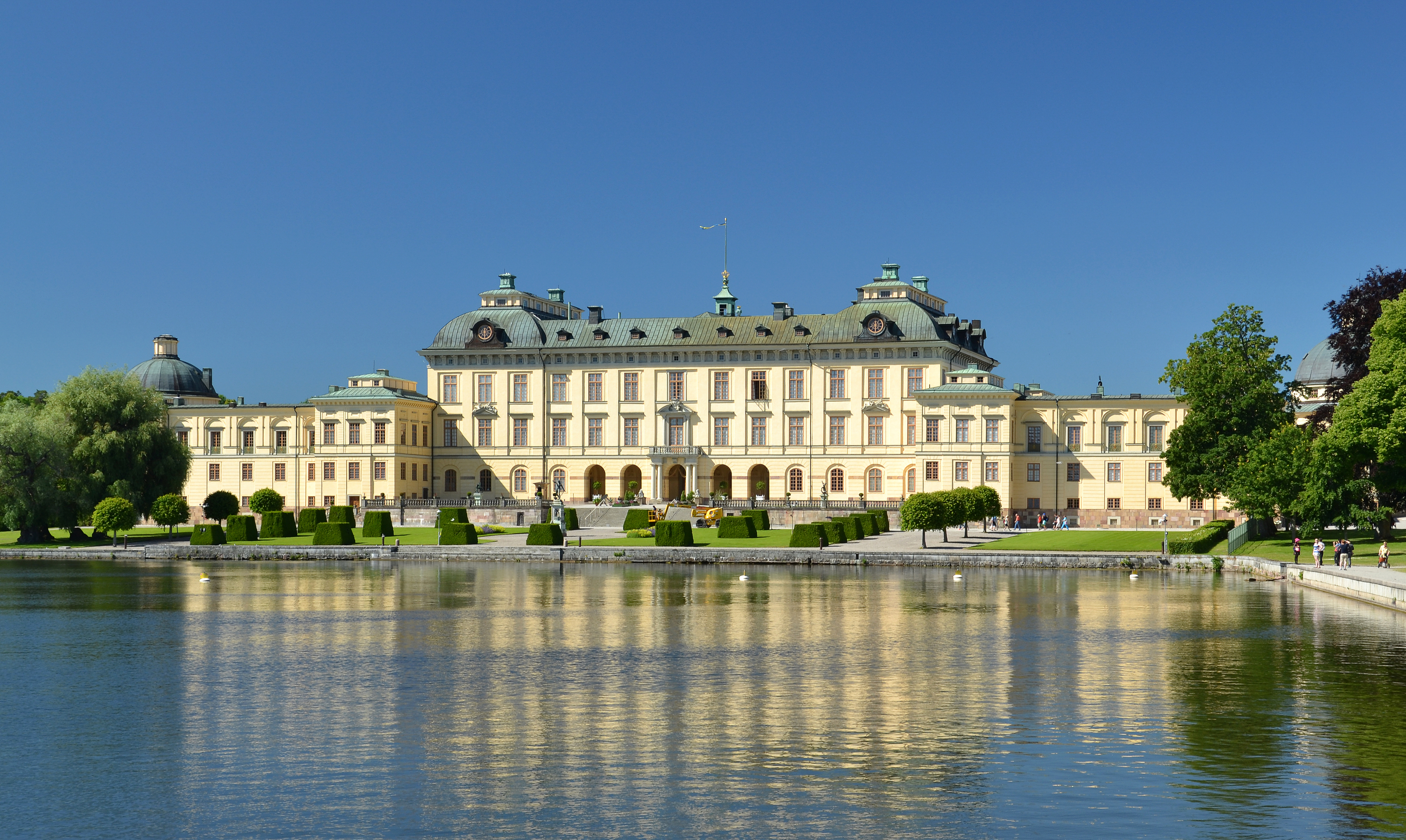 Drottningholm Palace, Sweden